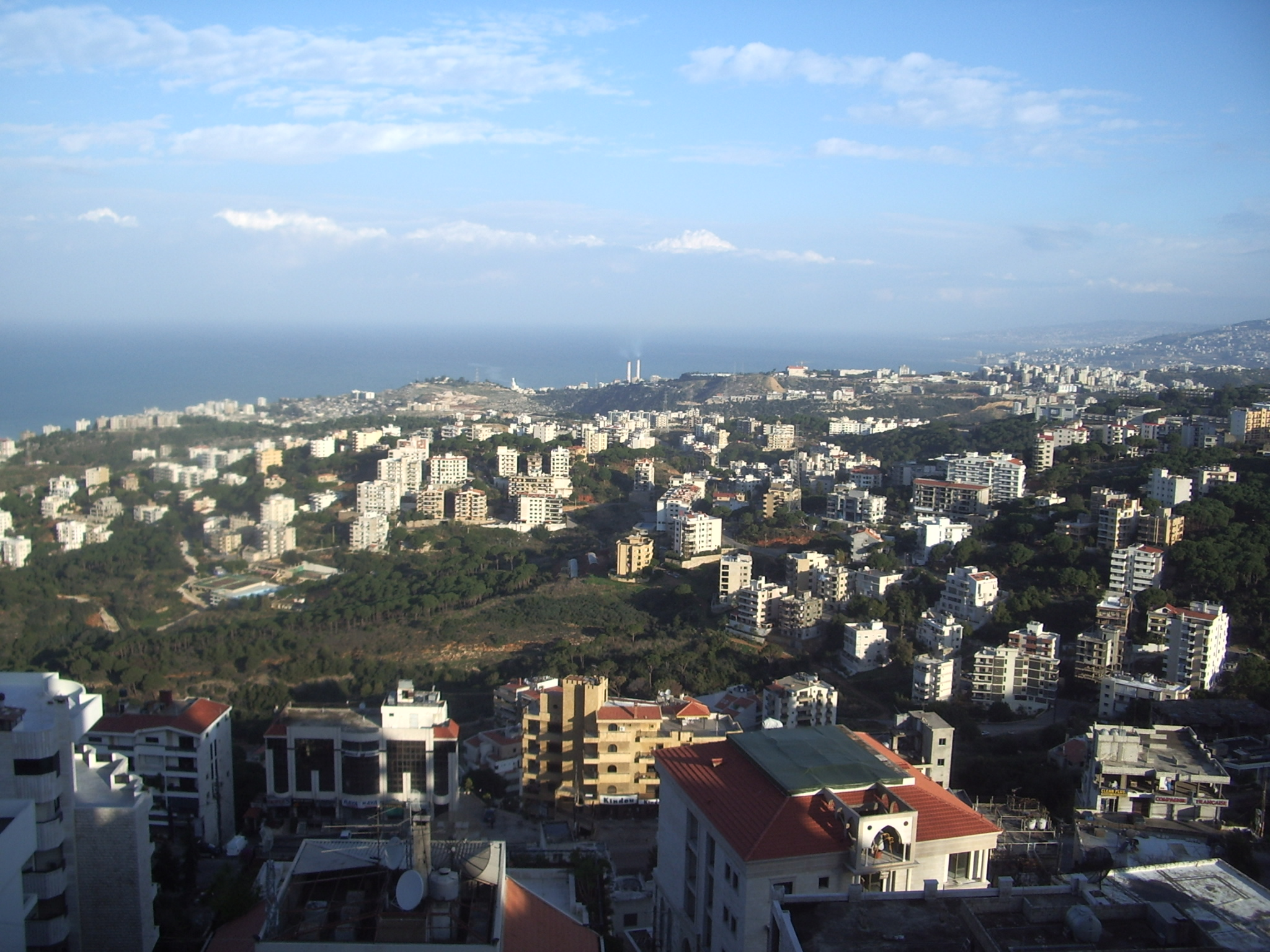 Bay of Jounieh, coastal village situated north of Beirut. This picture was taken from an appartment building's balcony in Rabieh, Lebanon